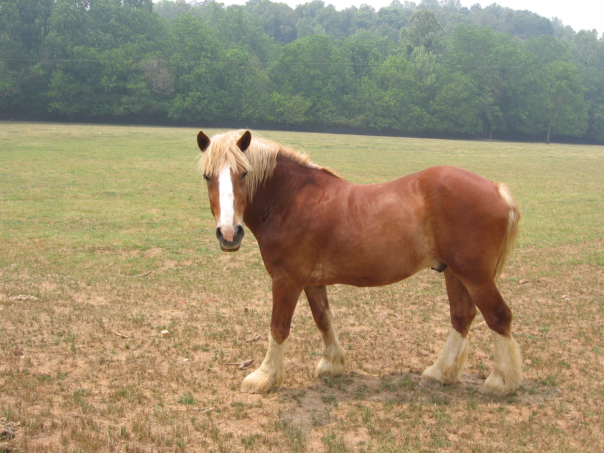 Just standing in the field.